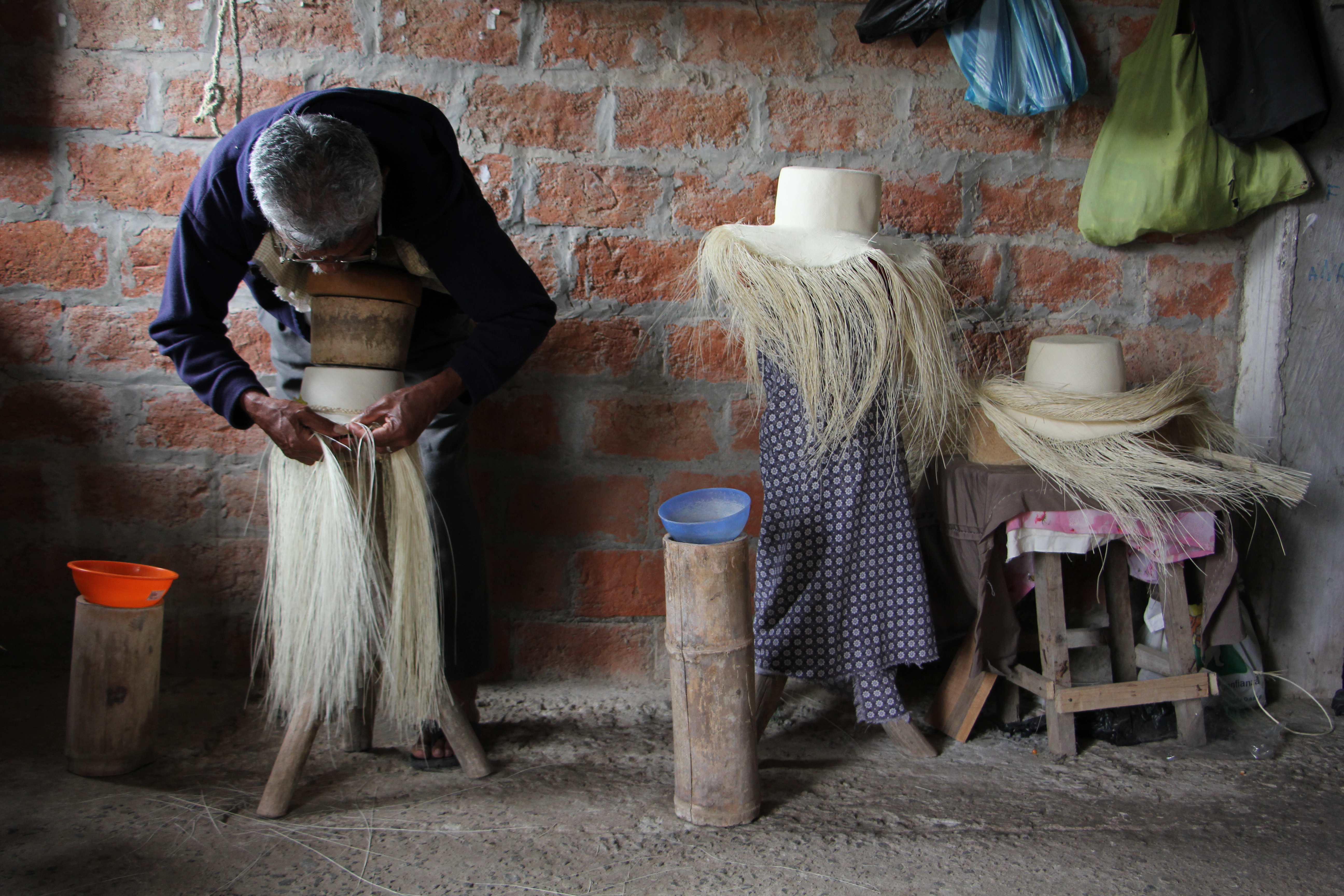 The toquilla straw hat is woven from fibres from a palm tree characteristic of the Ecuadorian coast. Cenovio is a master weaver, with over 70 years, every day of his life he acquires this pose. A grade 30 hat can be done by him in one month and a half, something that could take other weavers more than 2 months.